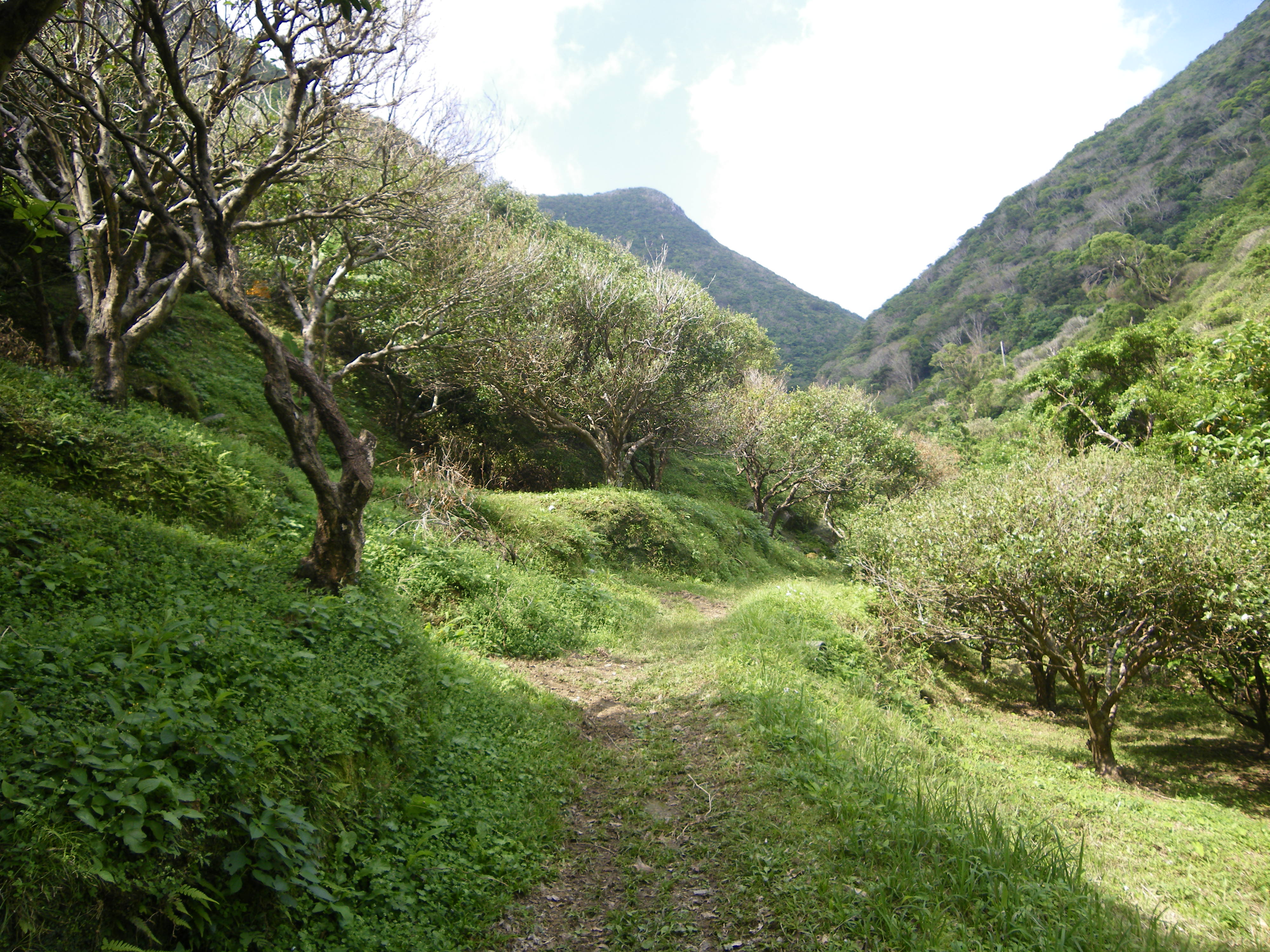 Trail of Mount Awa